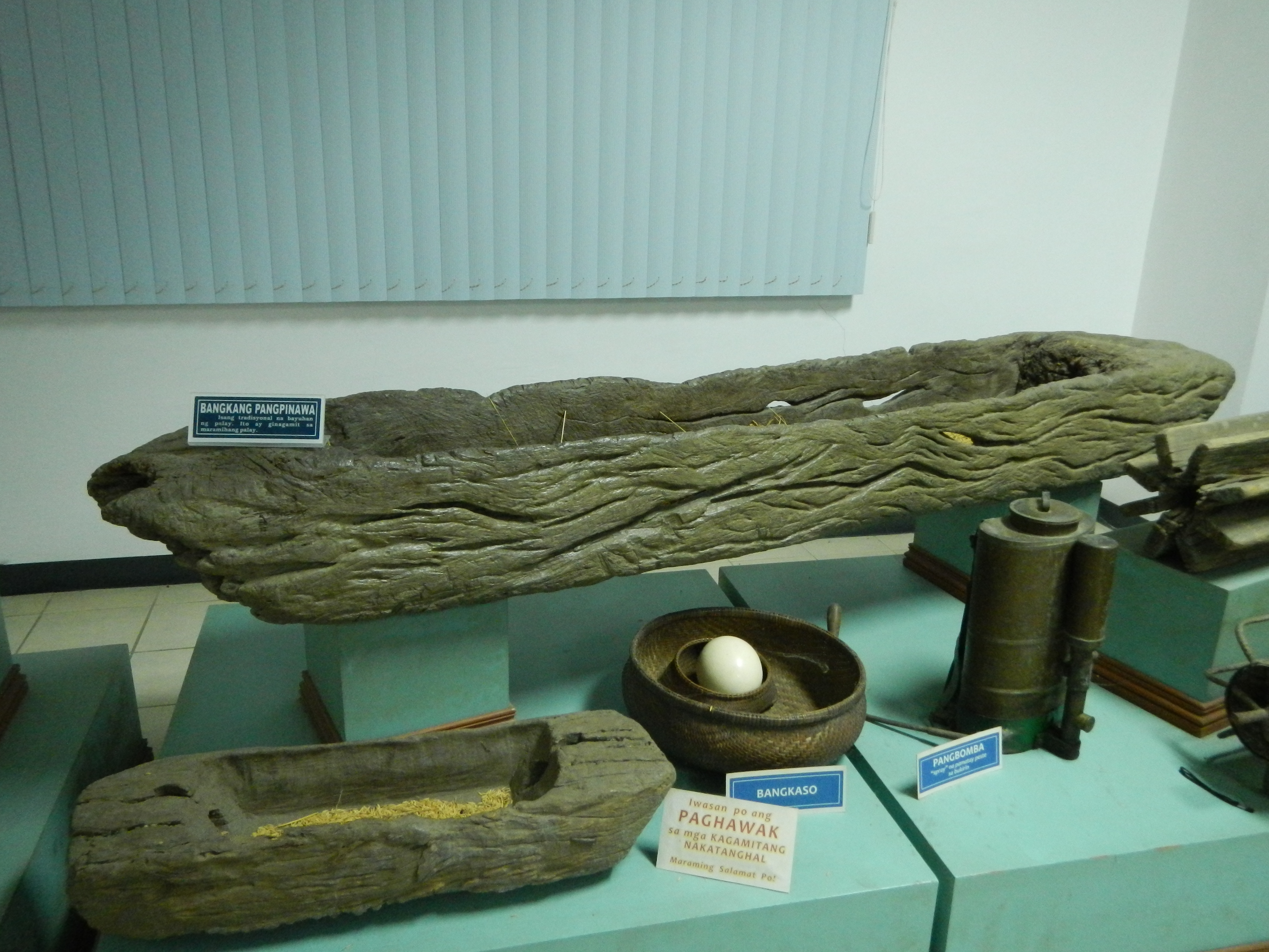 Bangkang Pangpinawa(Mortar and pestle[1])